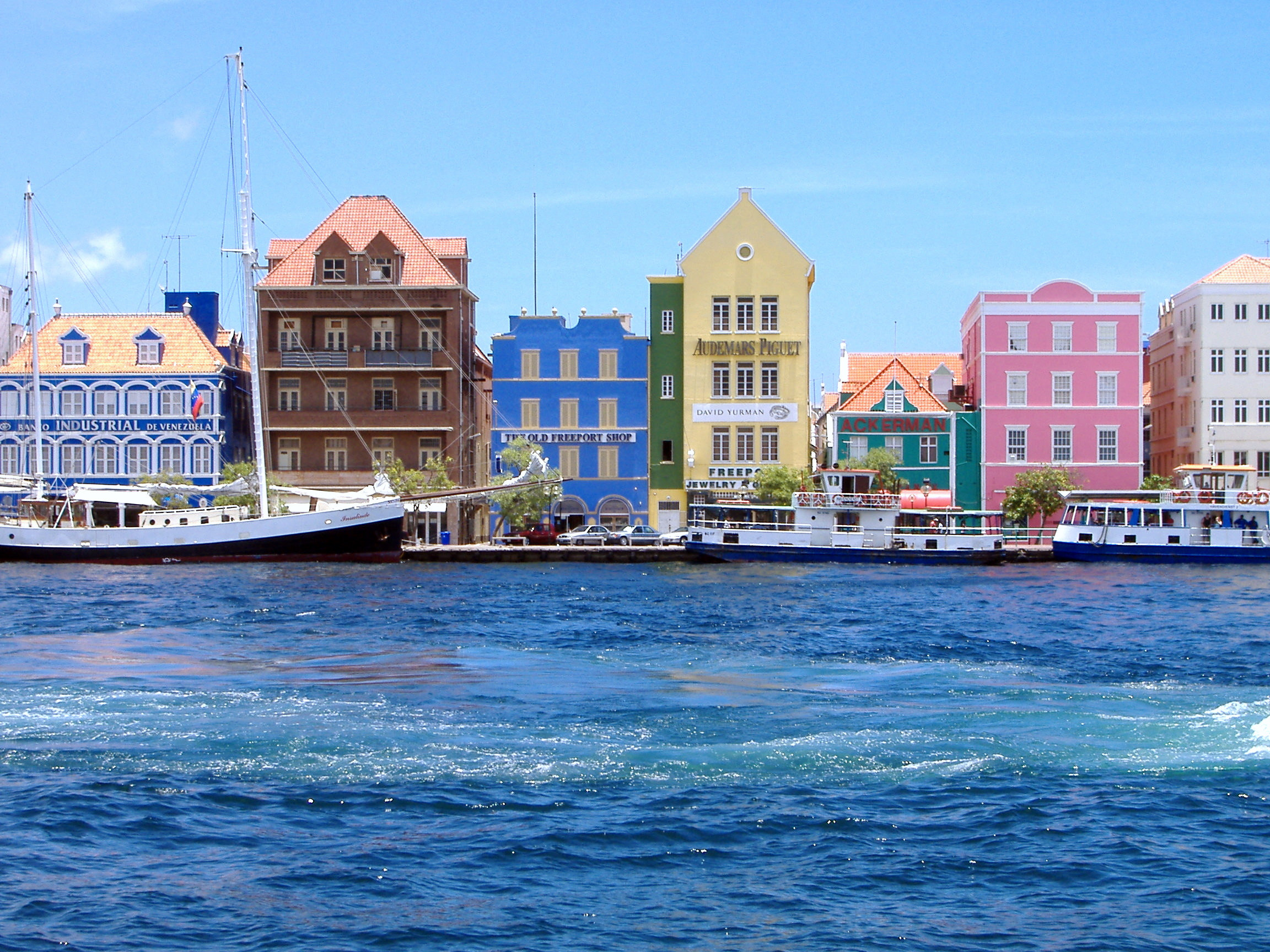 Tourist section of the Willemstad harbor in Curacao.